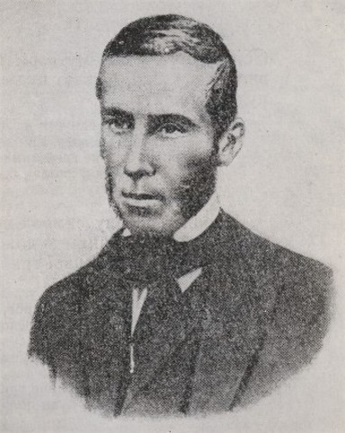 Portrait of Amvrosii Metlynskyi